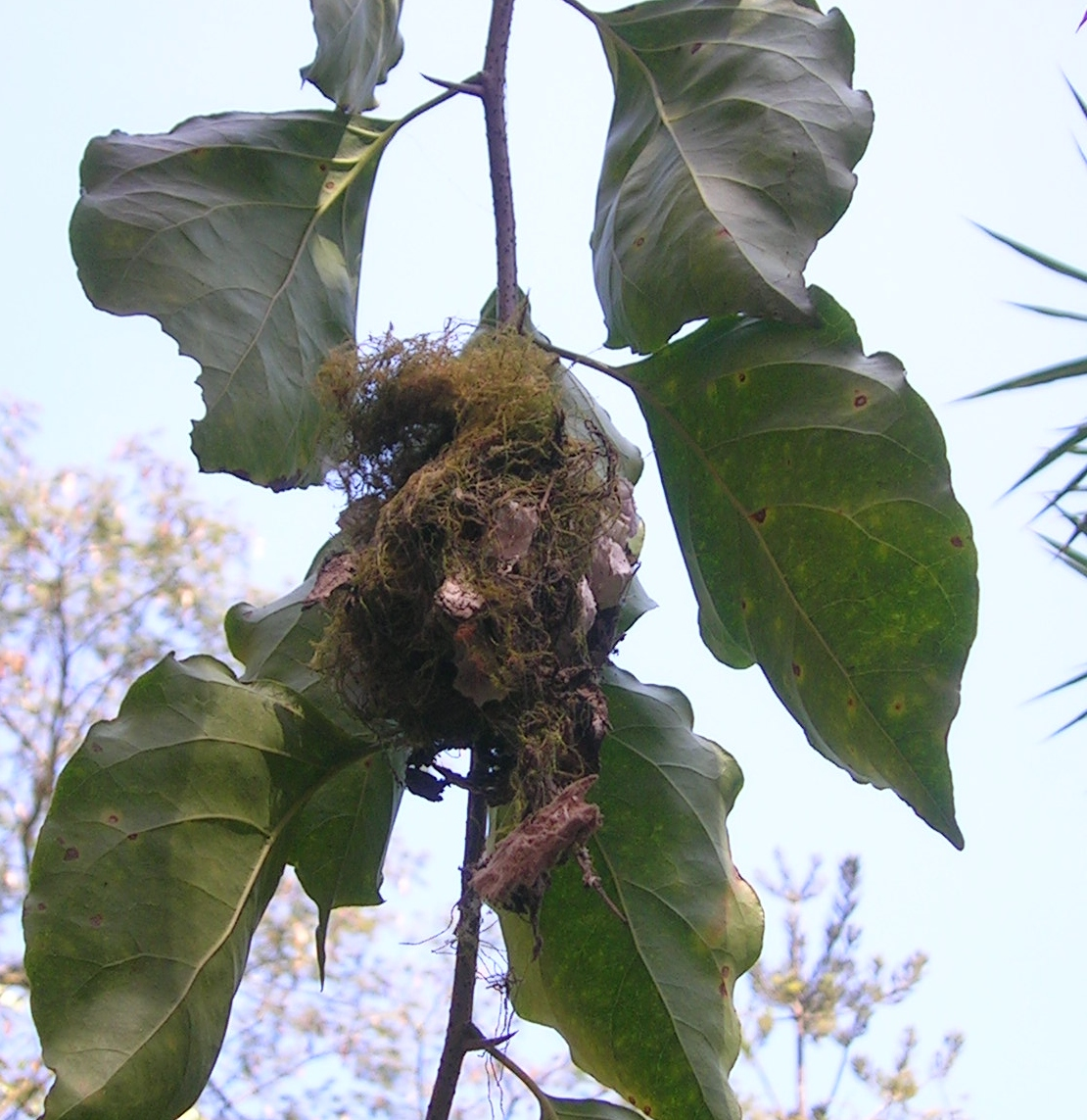 Small Sunbird (Leptocoma minima) nest, Wynaad, Kerala, India